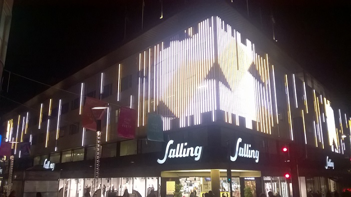 Salling stormagasin Aarhus